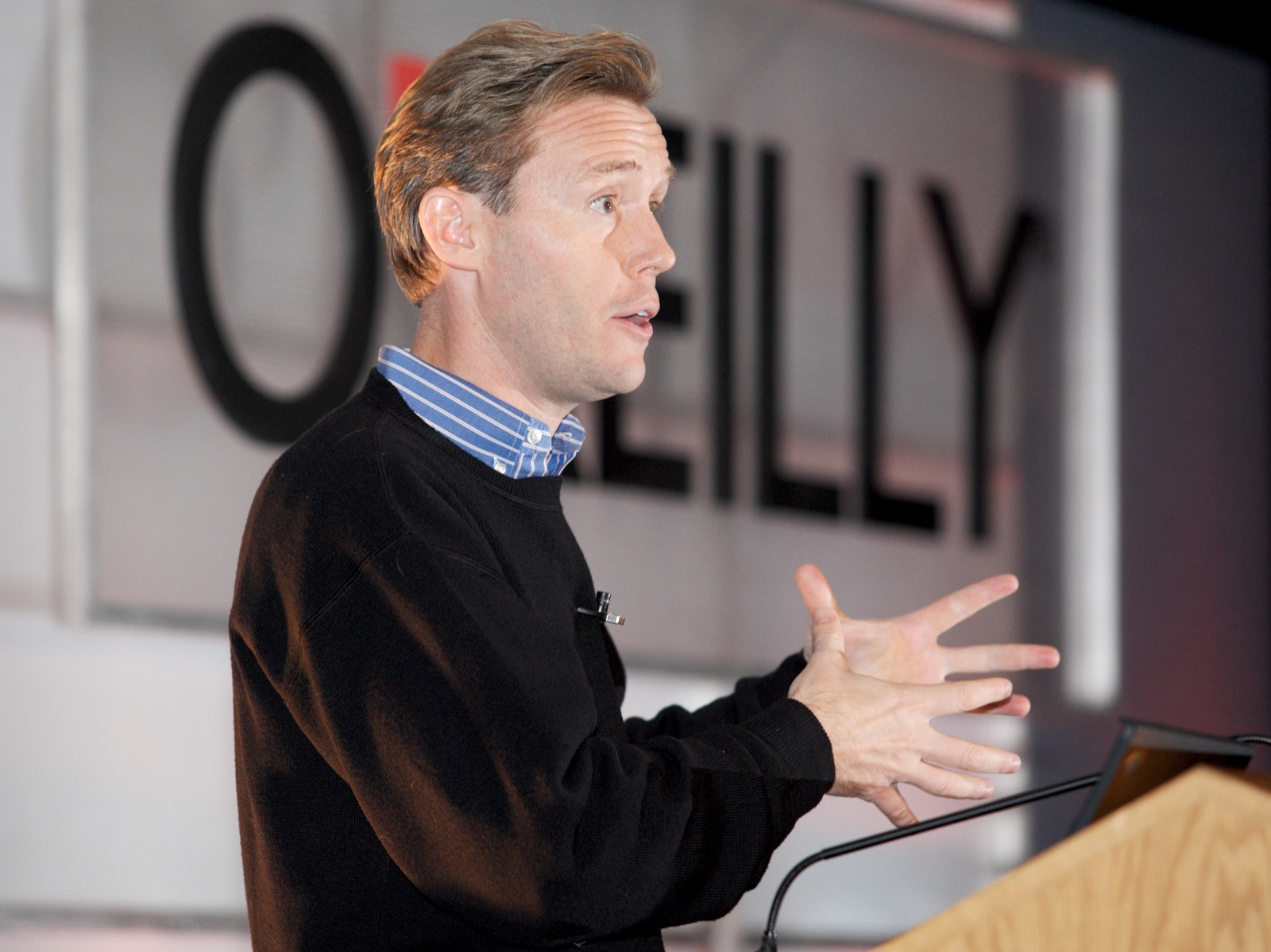 Michael Robertson at the 2006 O'Reilly Emerging Telephony Conference. For higher resulutions .